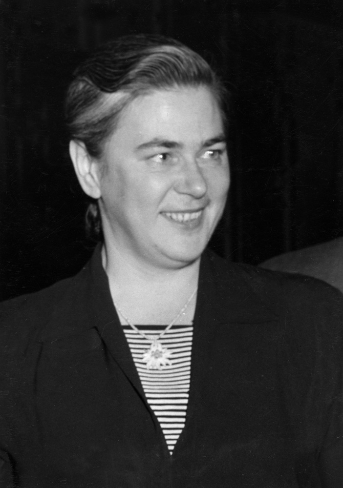 Soia Mentschikoff, professor of Law at the University of Chicago